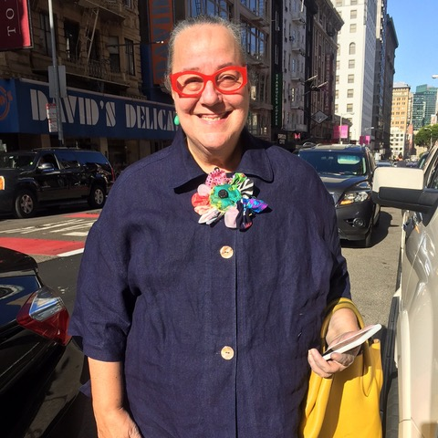 Kim Hastreiter in San Francisco, 2016.